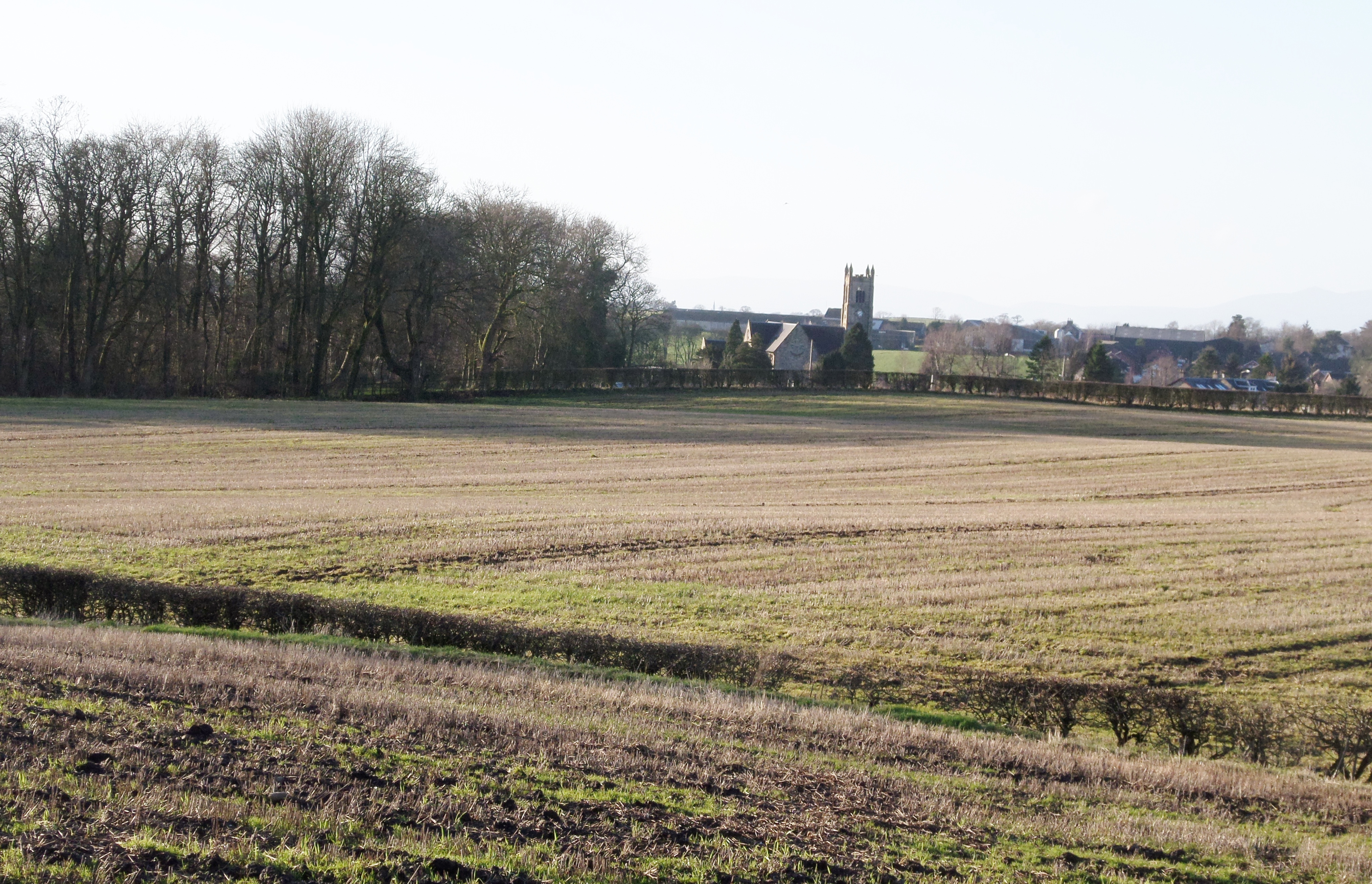 Site of Kilmaurs Castle, Tour woods and St Maurs-Glencairn Church, East Ayrshire, Scotland.